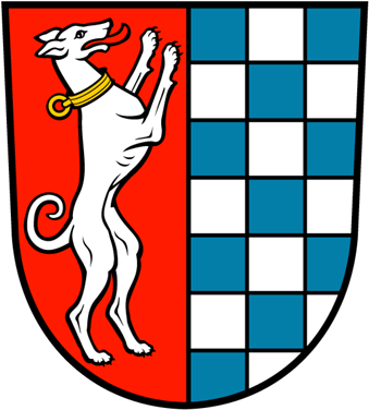 Coat of arms of Vetschau